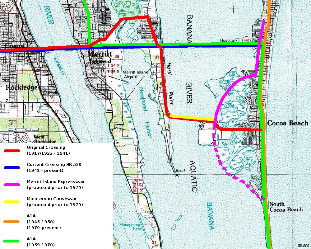 This showns current and former alignments of SR 520 and SR A1A in the Cocoa - Merrit Island - Cocoa Beach area.